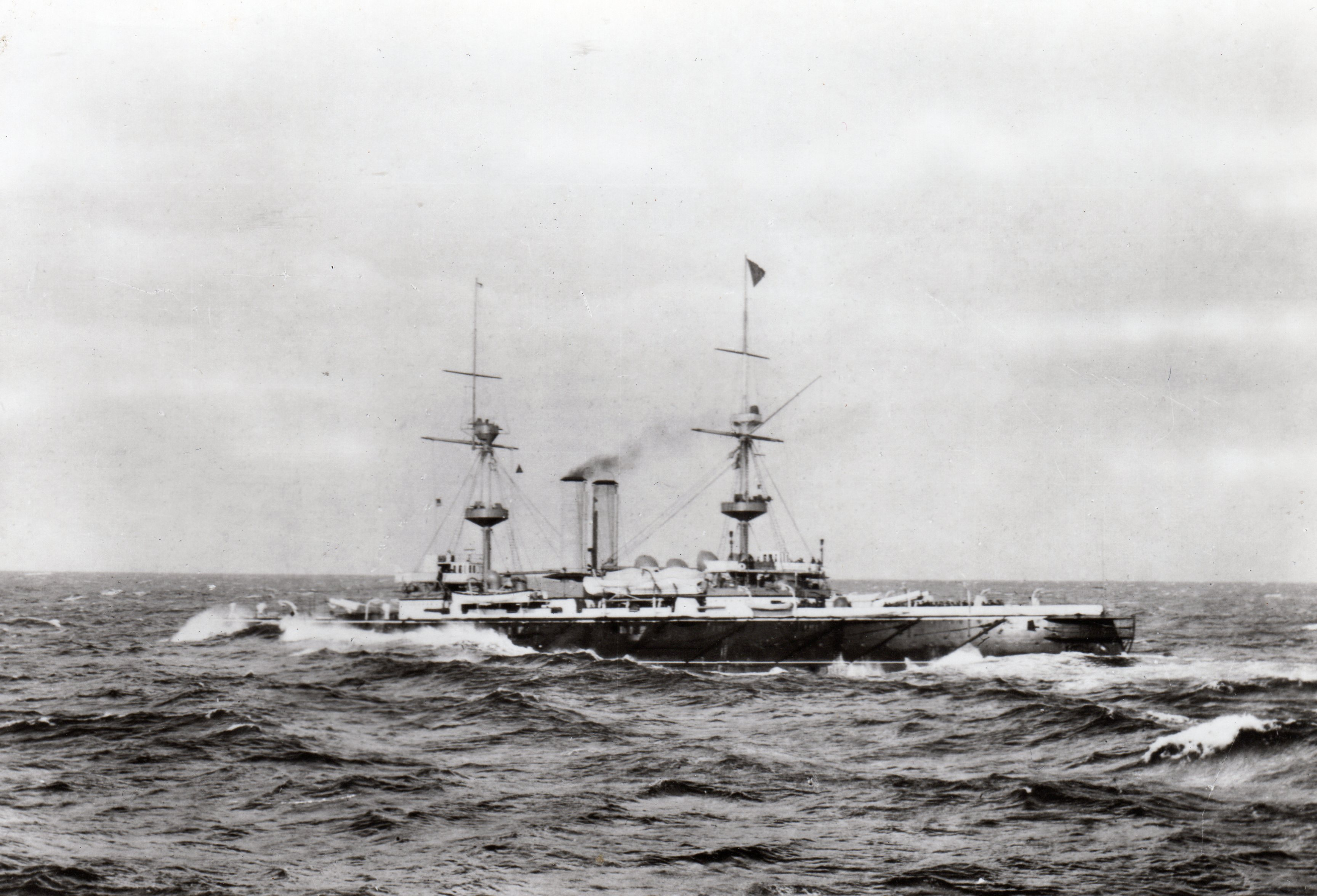 HMS Royal Sovereign (1891) i